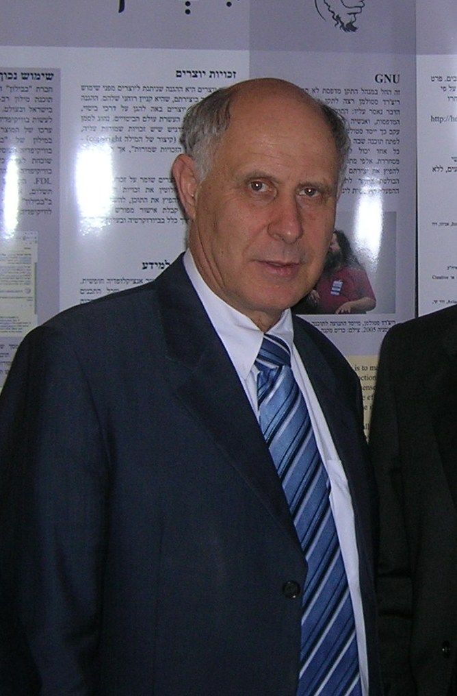 Israeli MK Michael (Miki) Eitan in ISOC 2008 at Kfar Hamacabiya, inspecting the Hebrew Wikipedia Exhebition